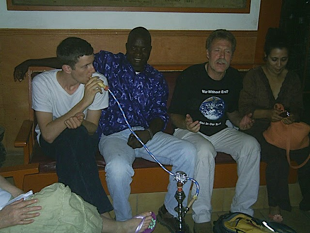 Men enjoy a hookah and each other in a Mali bar.